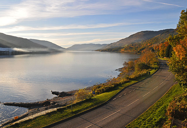 A85 at St Fillans Heading west along the north shore of Loch Earn, towards Lochearnhead. The railings on the left are to guard the tailrace of St Fillans hydroelectric power station.